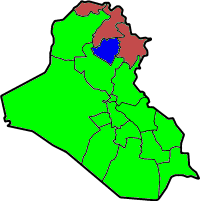 Map of the governorates of Iraq showing those provinces that are holding elections in 2008/9. Green: Electing; Blue: Kirkuk (delayed); Red: Iraqi Kurdistan (separate election law to be produced by Regional Government)